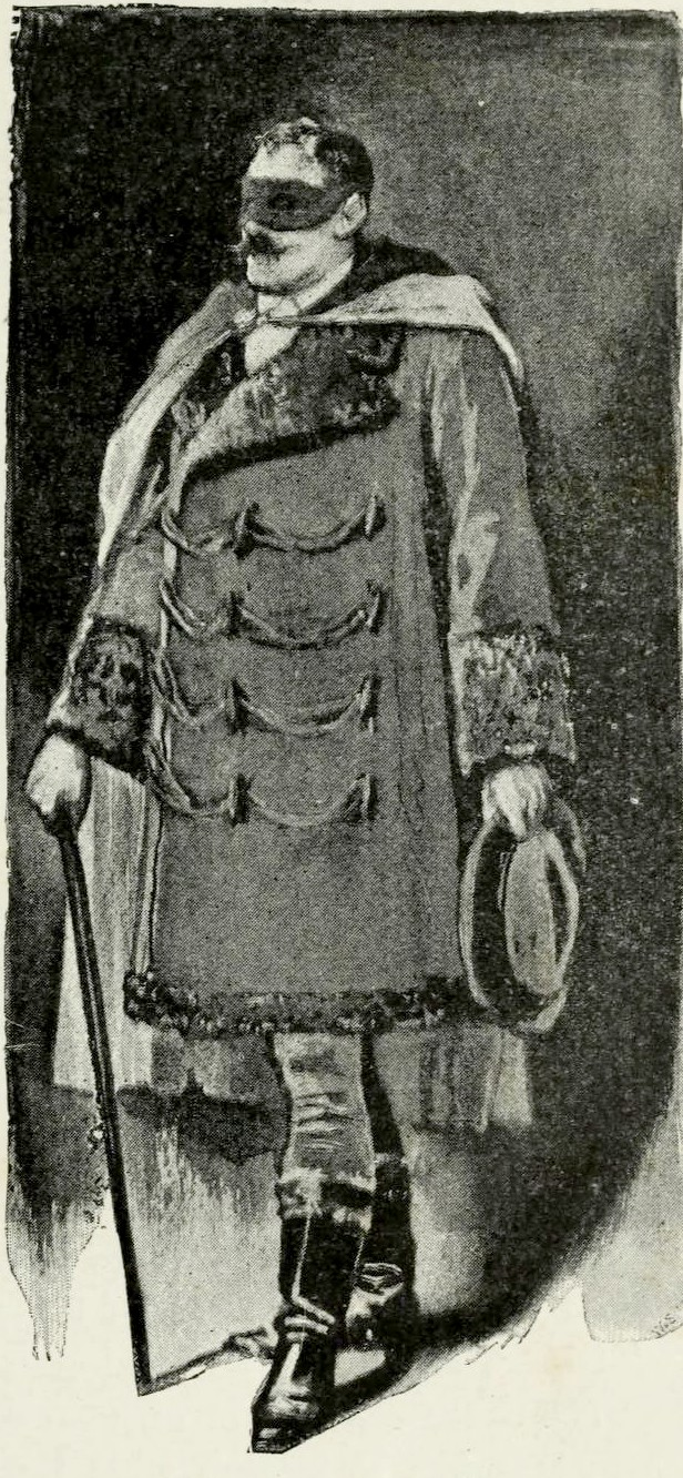 Illustration of the short story A Scandal in Bohemia, which appeared in The Strand Magazine in July, 1891. This illustration appeared on page 64, and is captioned "A MAN ENTERED."